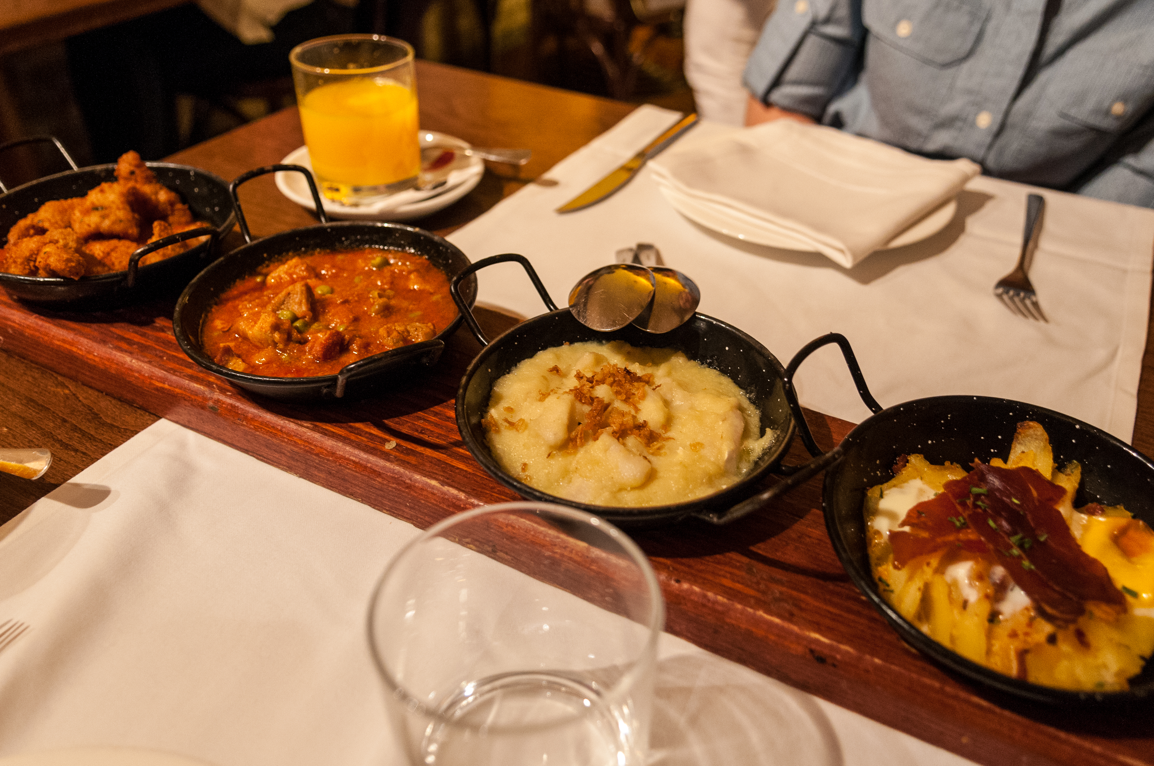 Mix of tapas in Toldedo, Spain